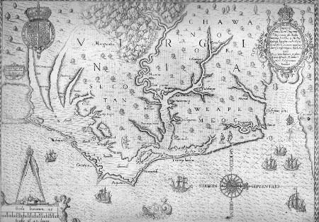 Theodore DeBry, 1590, plate 1. Volume I of Theodorous de Bry, Collectiones Pergrinationun in Indiam Occidentalem. Frankfort: T. De Bry, 1590-1634. LVA-Map (Vorhees Collection). A revised map of John White's original. In this version, the Chesapeake Bay appears named for the first time and the orientation has changed to the west at the top.